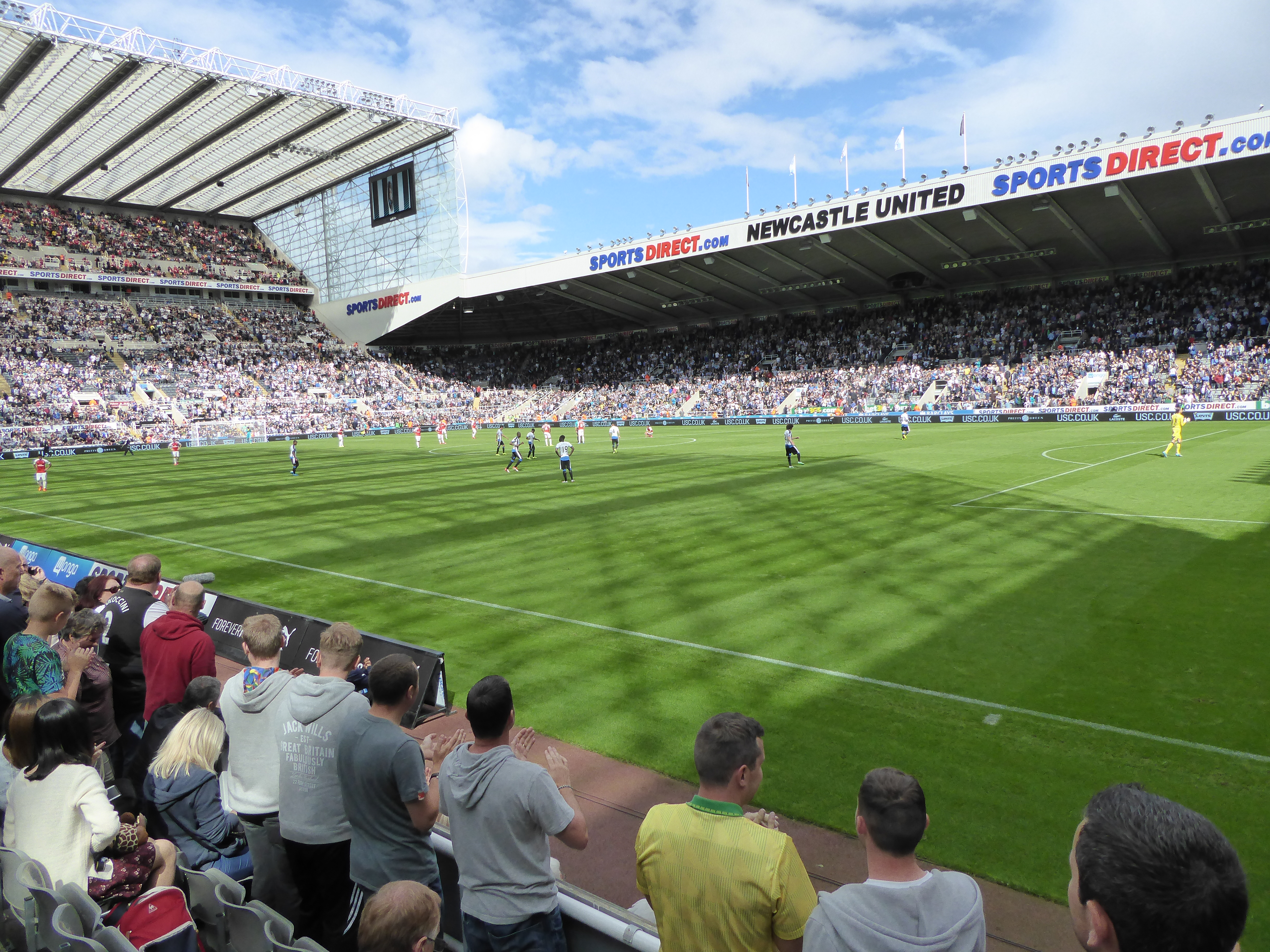 Newcastle United vs Arsenal (0-1), St James' Park, Newcastle upon Tyne, Tyne and Wear, England, August 2015